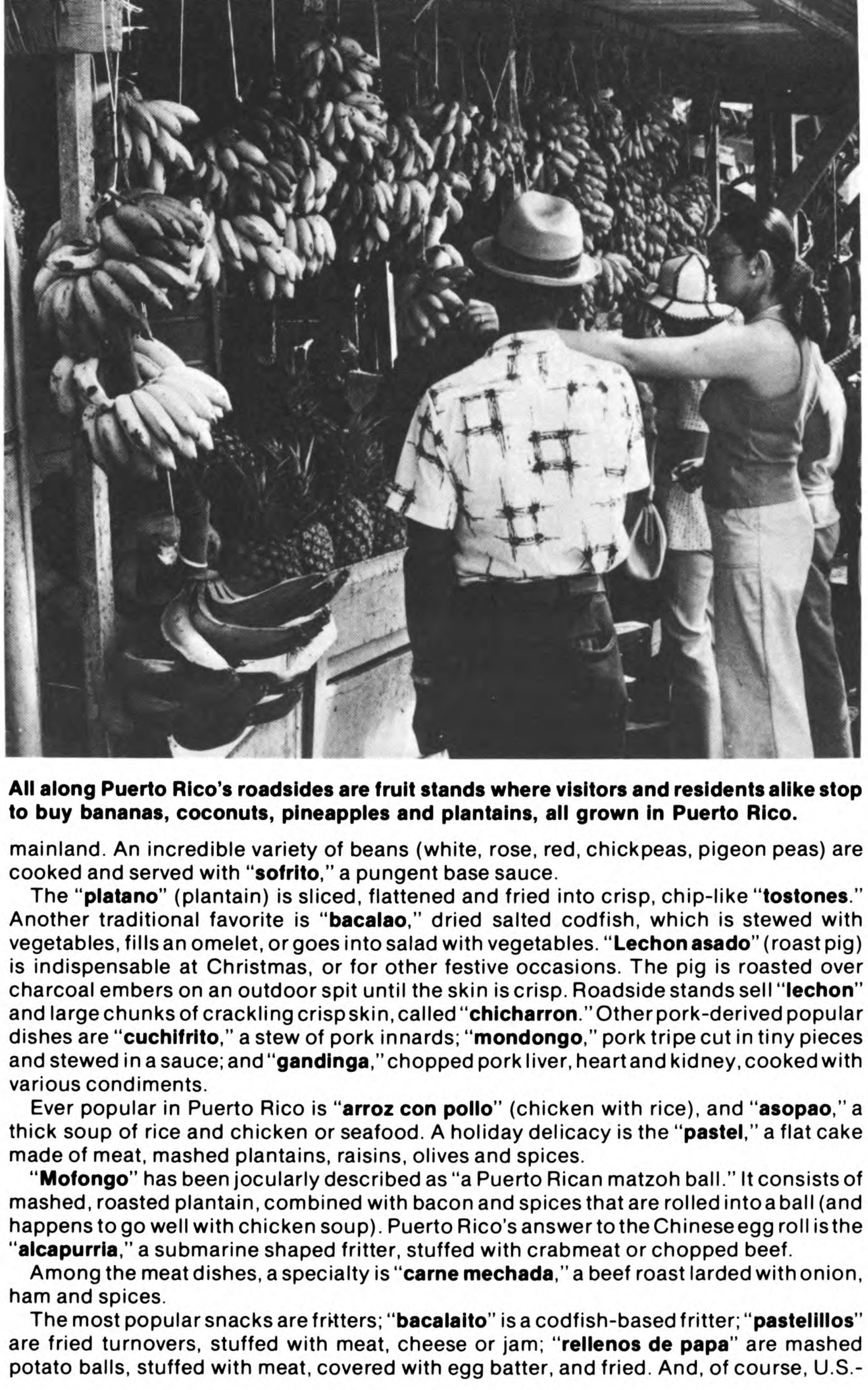 The text and the picture talk about the mofongo and the plantains in Puerto Rico. This comes from a little booklet the US government published in the 1980s while Romero Barceló was governor. It was meant to attract tourism to the island. There is no copyright restrictions, and no writer nor photographer is attributed authorship.